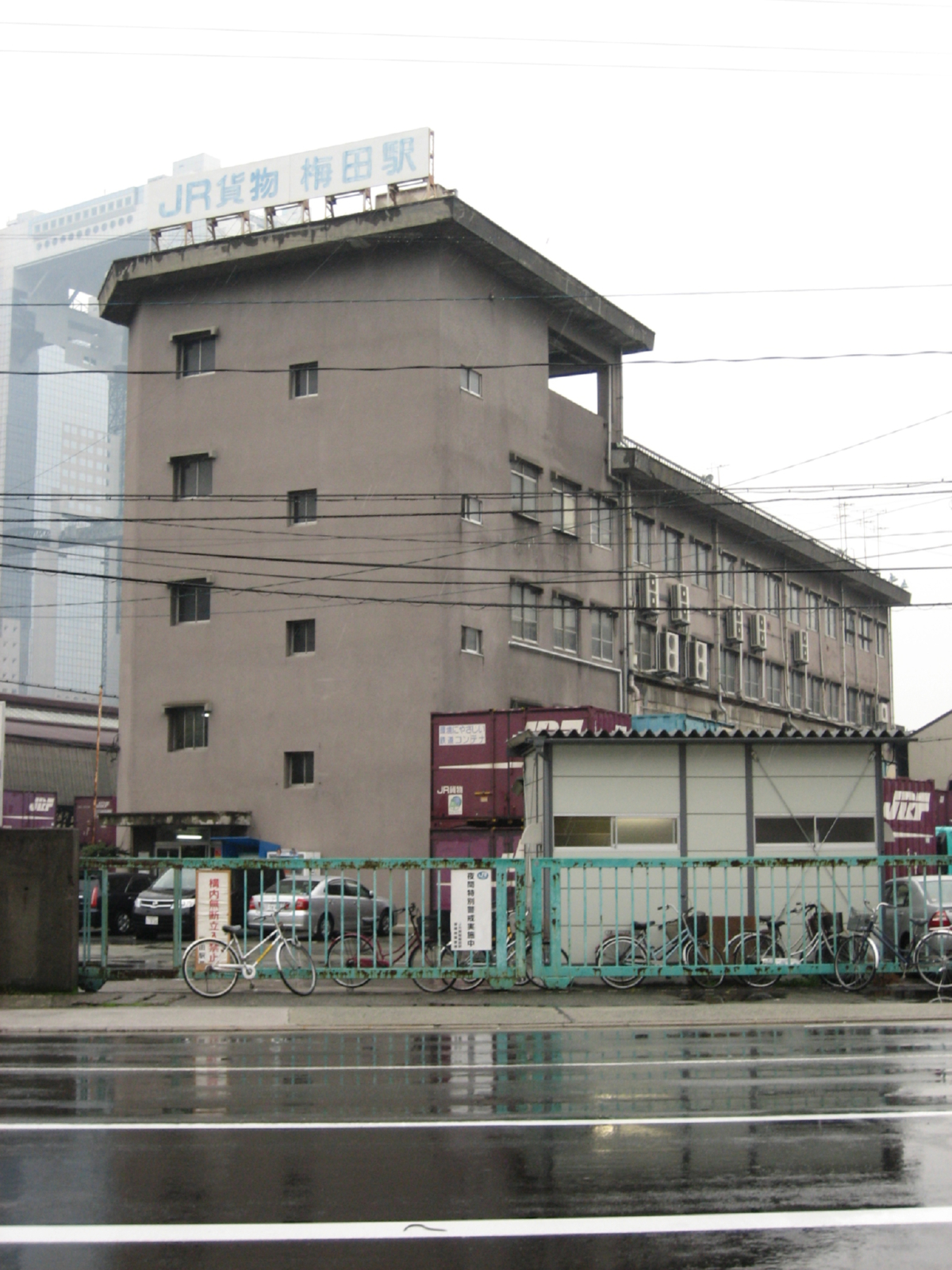 Umeda Station, Japan Freight Railway Company